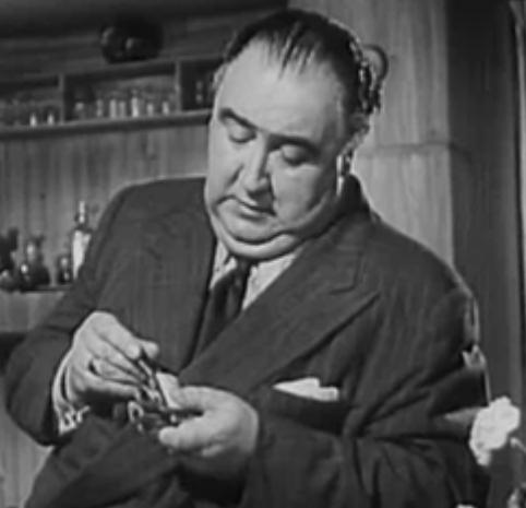 Francis L. Sullivan in Behave Yourself! - cropped screenshot